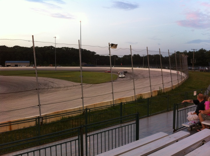 @ Illiana Motor Speedway (posted via FlickSquare)